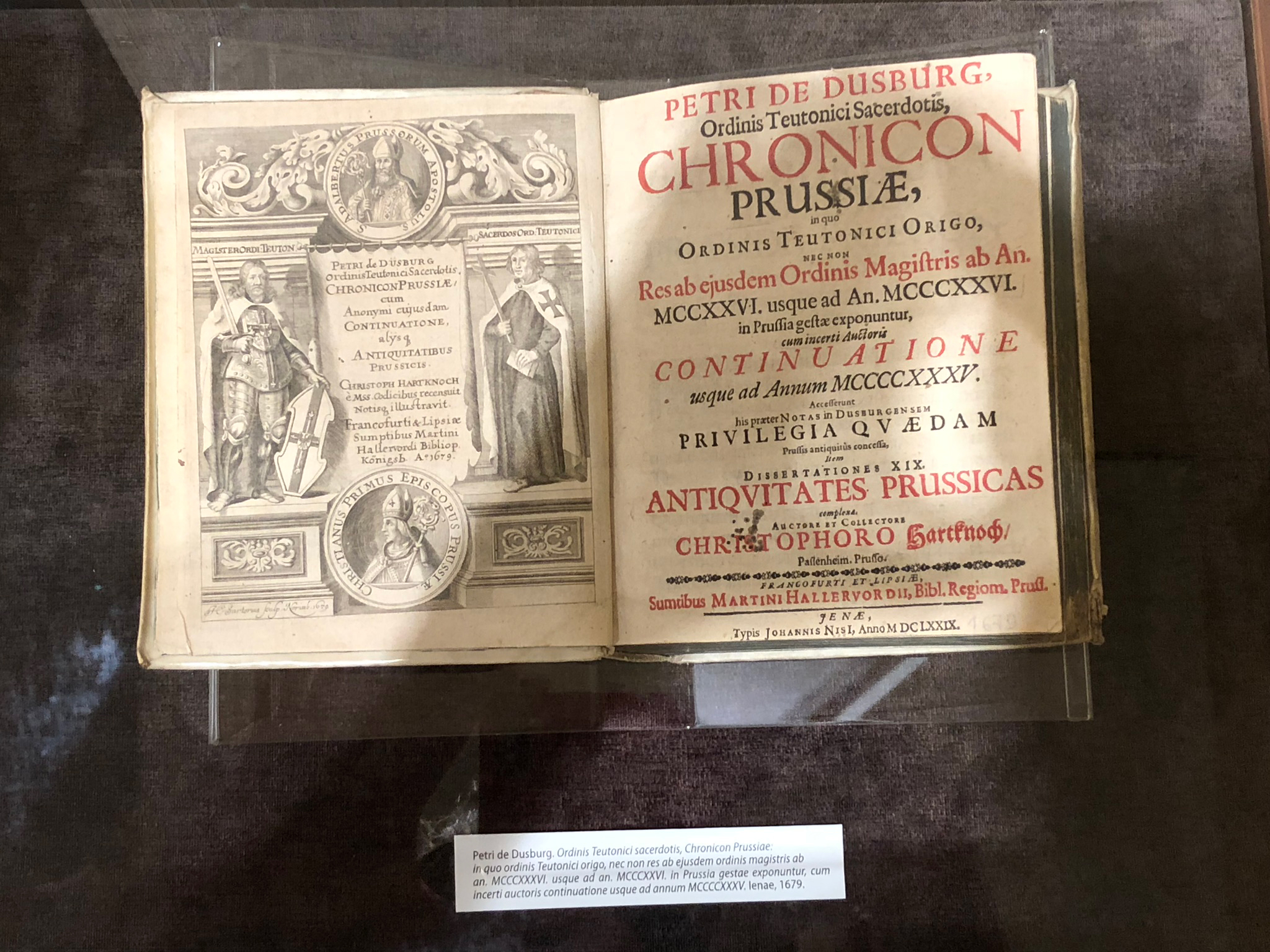 Exhibits in the Presidential Palace in Kaunas (second floor): Chronicon terrae Prussiae.